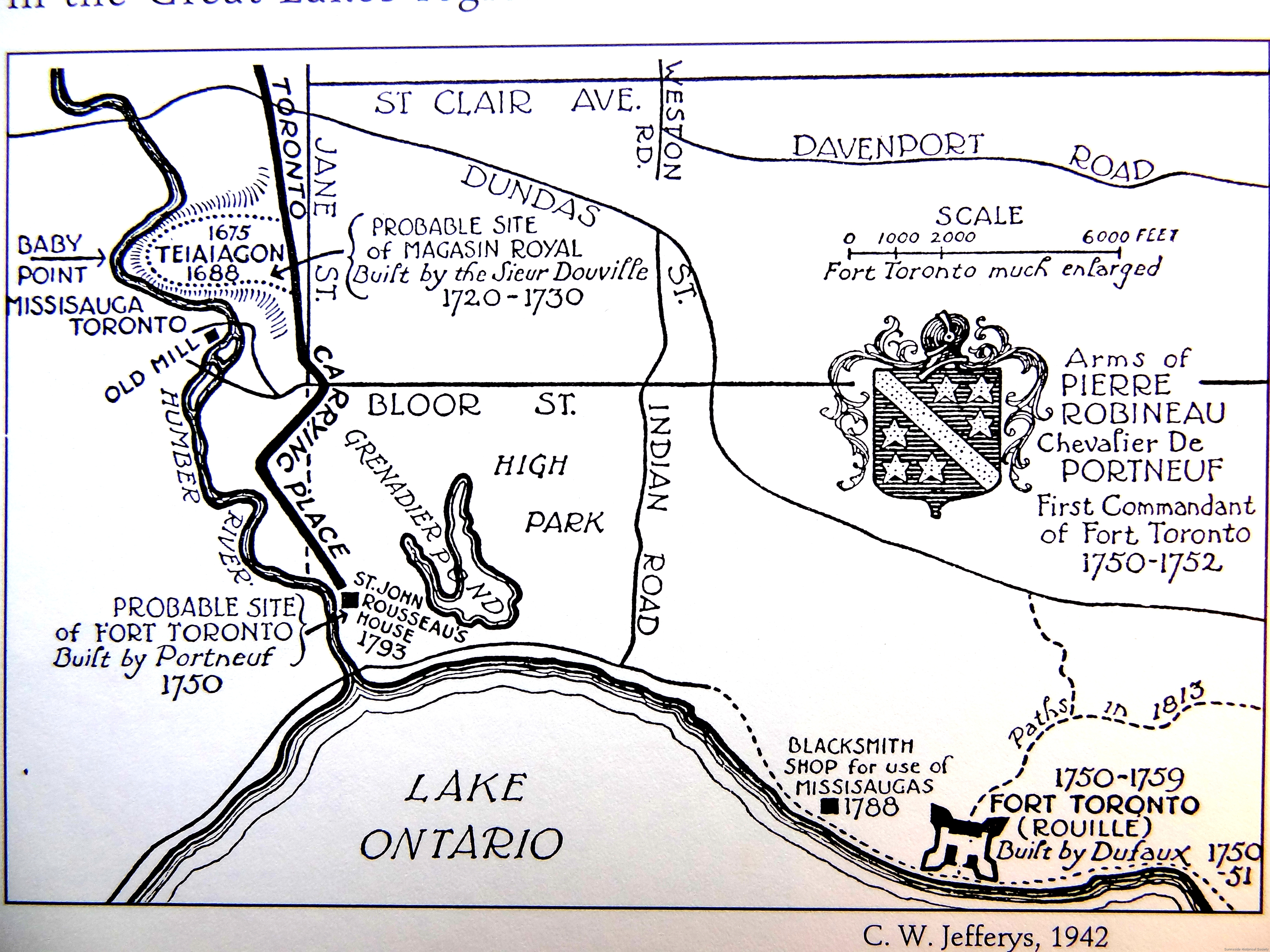 Map Showing Position of French Posts at Toronto